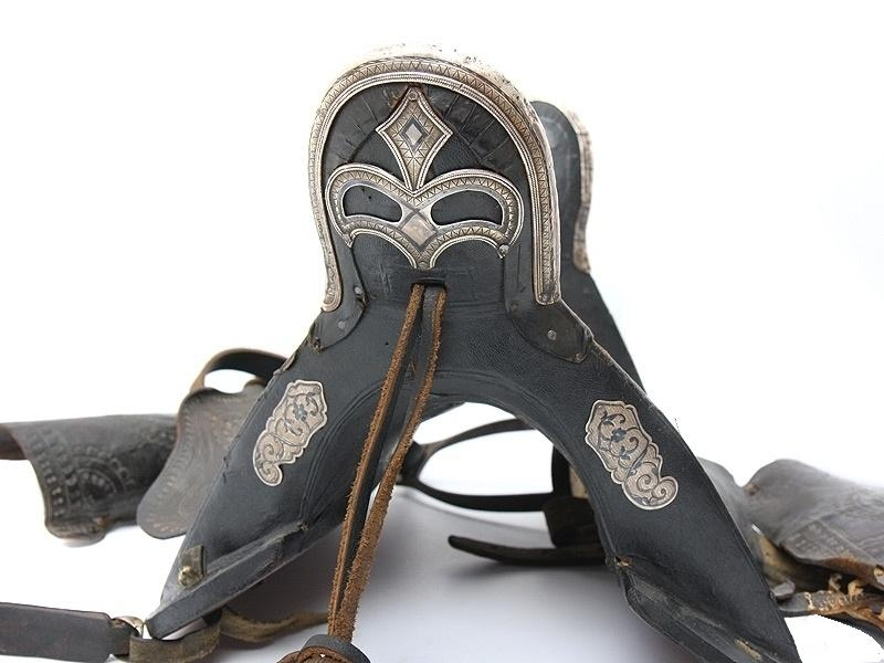 Circassian saddle, made approximatly in the end of XIX-th century.